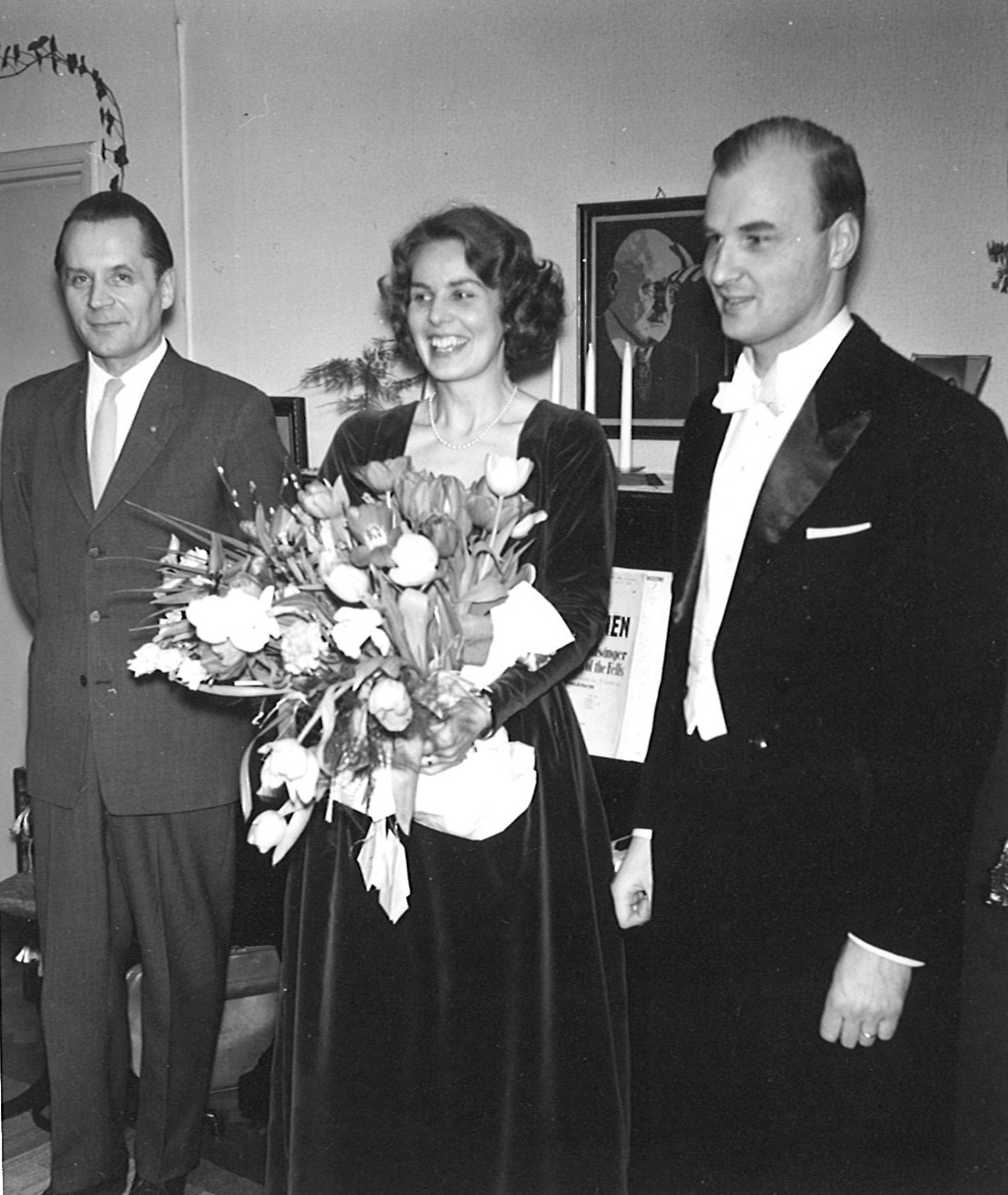 Photograph of the Finnish soprano Anneli Rauhala (1928–) after her debut concert. To her left, the pedagogue Tauno Kaivola (1912–1995); to her right, her brother Matti Rauhala (1925–).